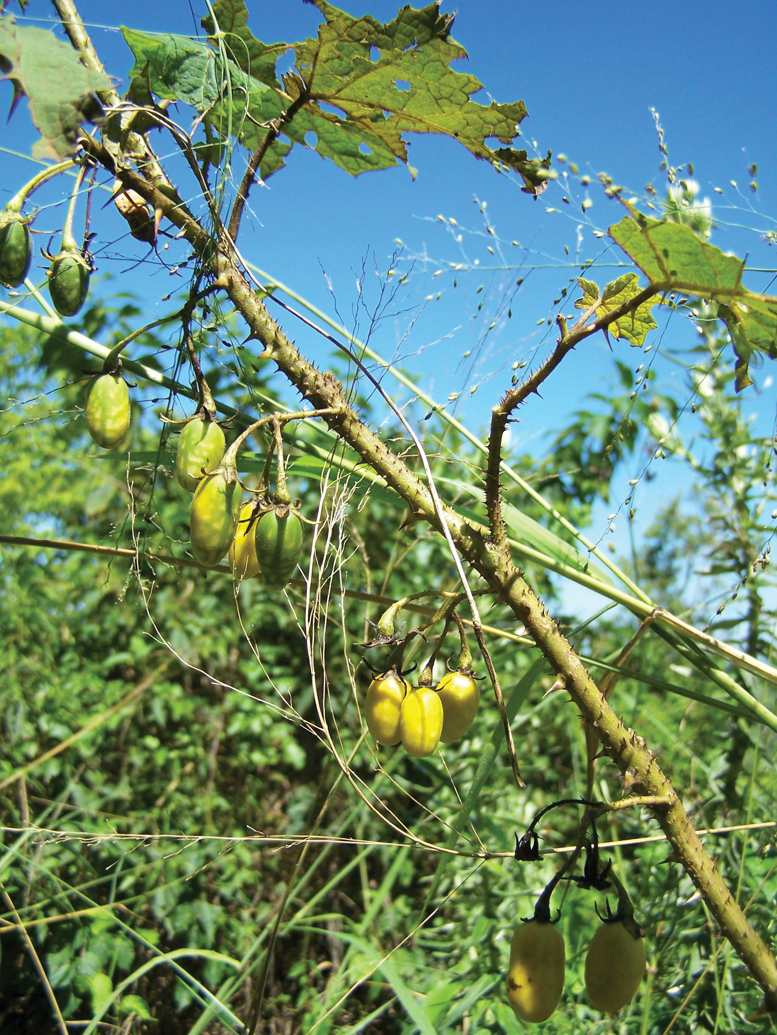 Fruiting branch of Solanum neei in Misiones, Argentina (Keller 3922, CTES).